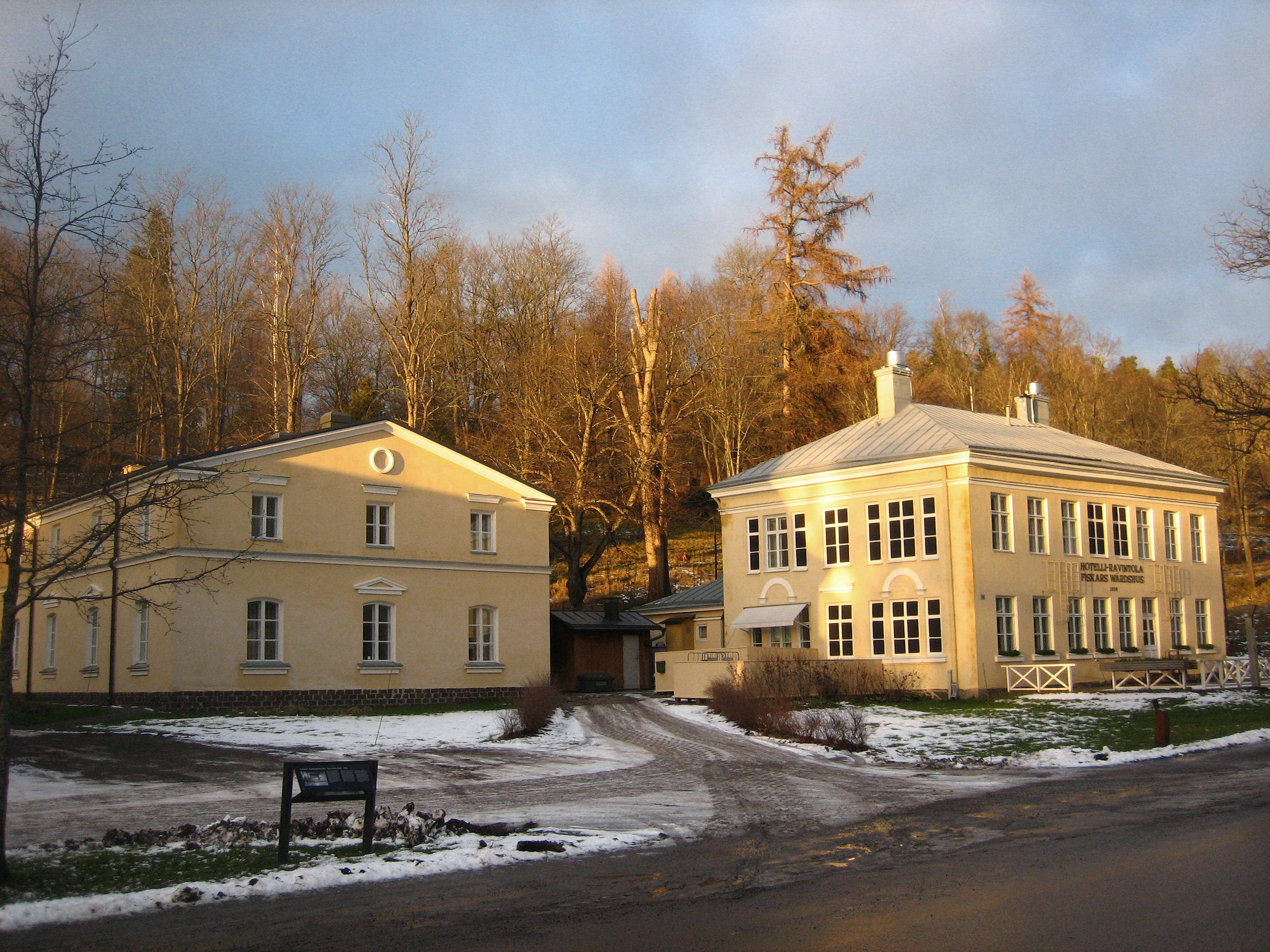 Fiskars Wärdshus in Raseborg, Finland, was designed by architect A. F. Granstedt and completed in 1836.